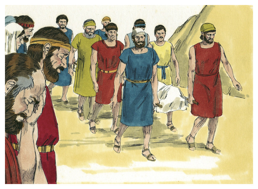 Biblical illustration of Book of Leviticus Chapter 10